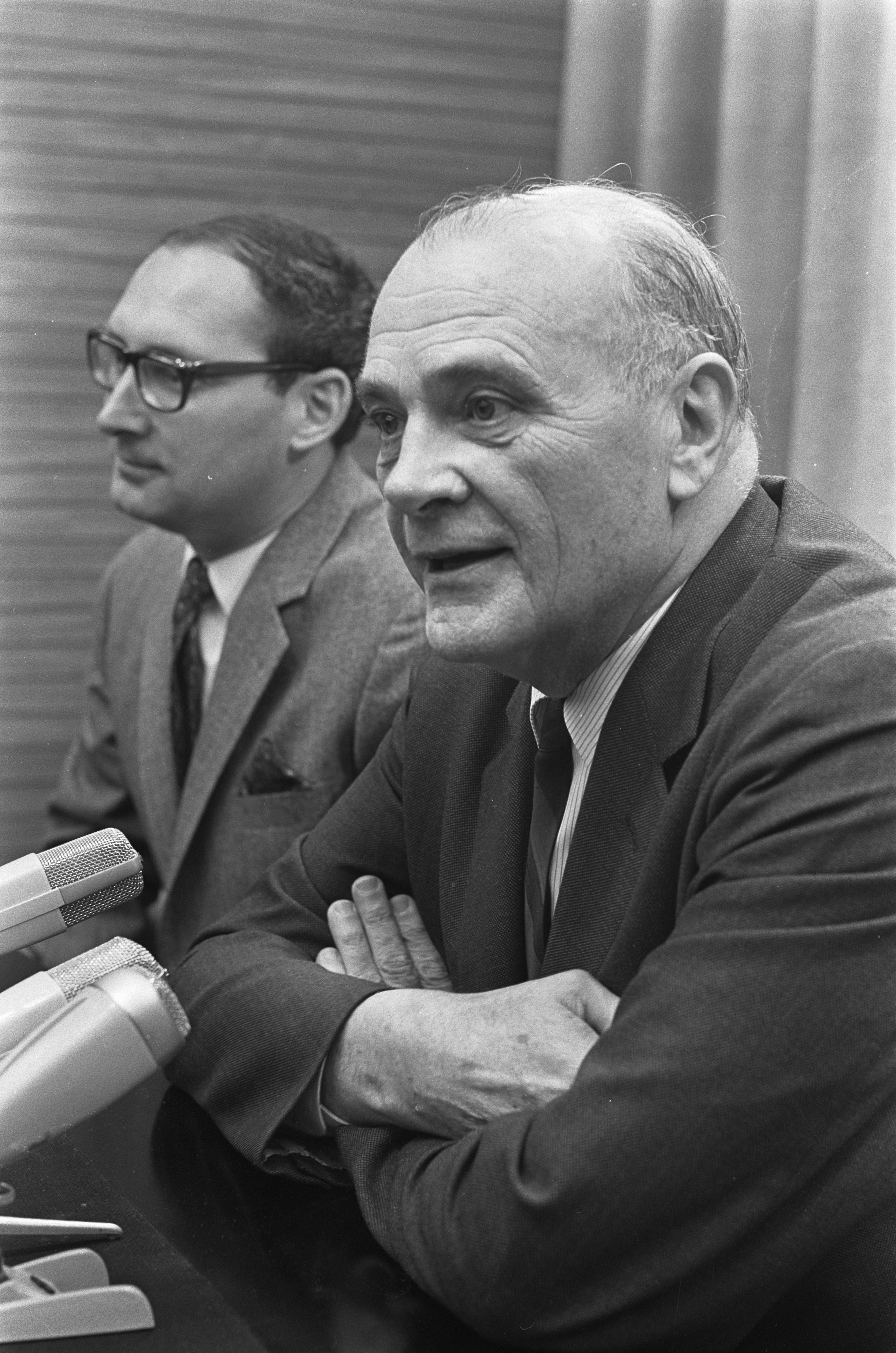 Arrival of General Secretary of the World Council of Churches dr. Carson Blake at Schiphol Airport.